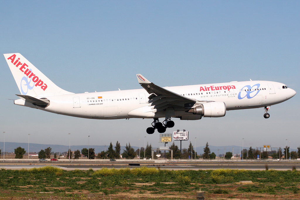 Training new crews, touch & go comming from Madrid.